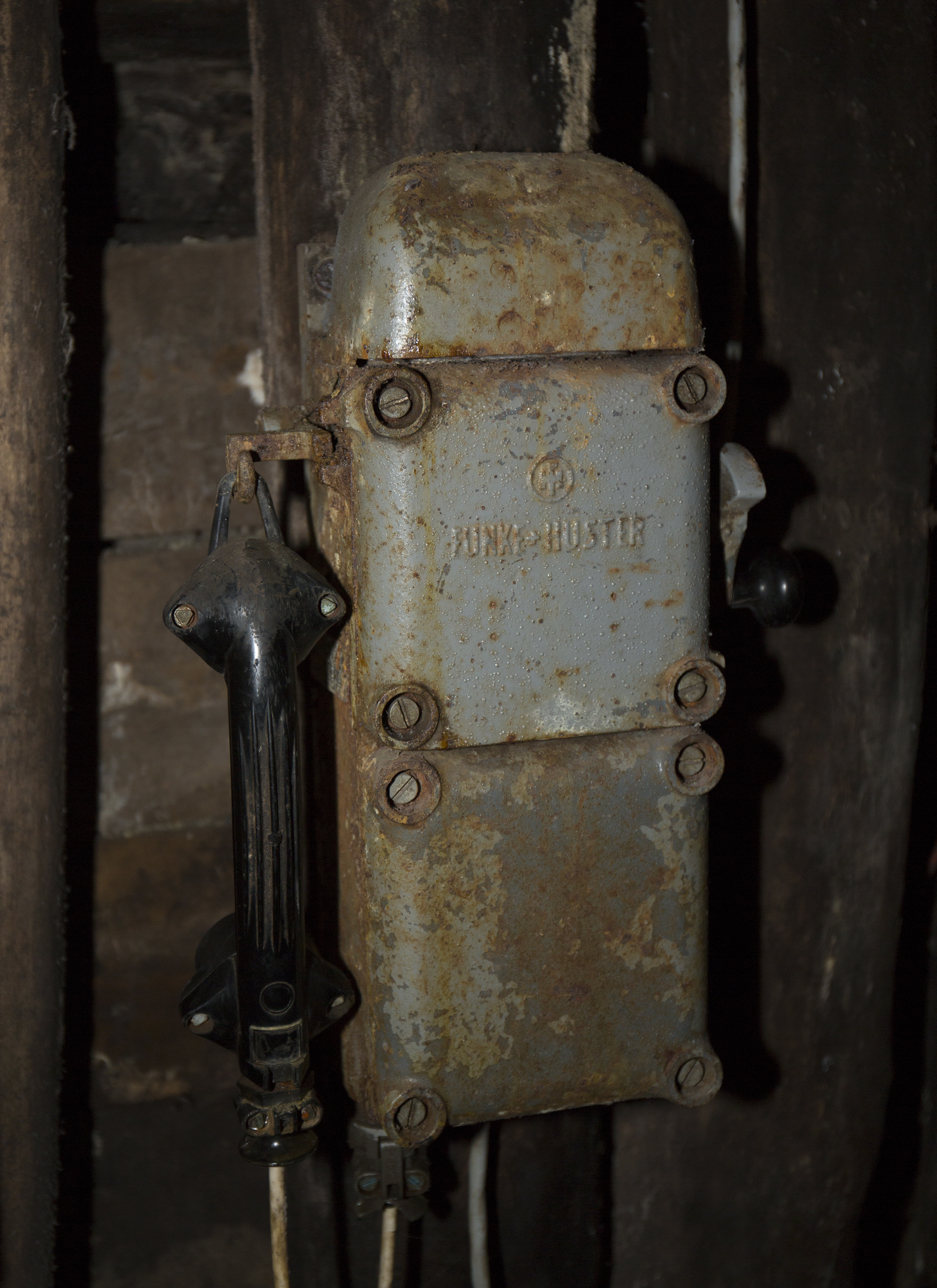 A Funke + Huster telephone inside the Idrija Mine, Slovenia.